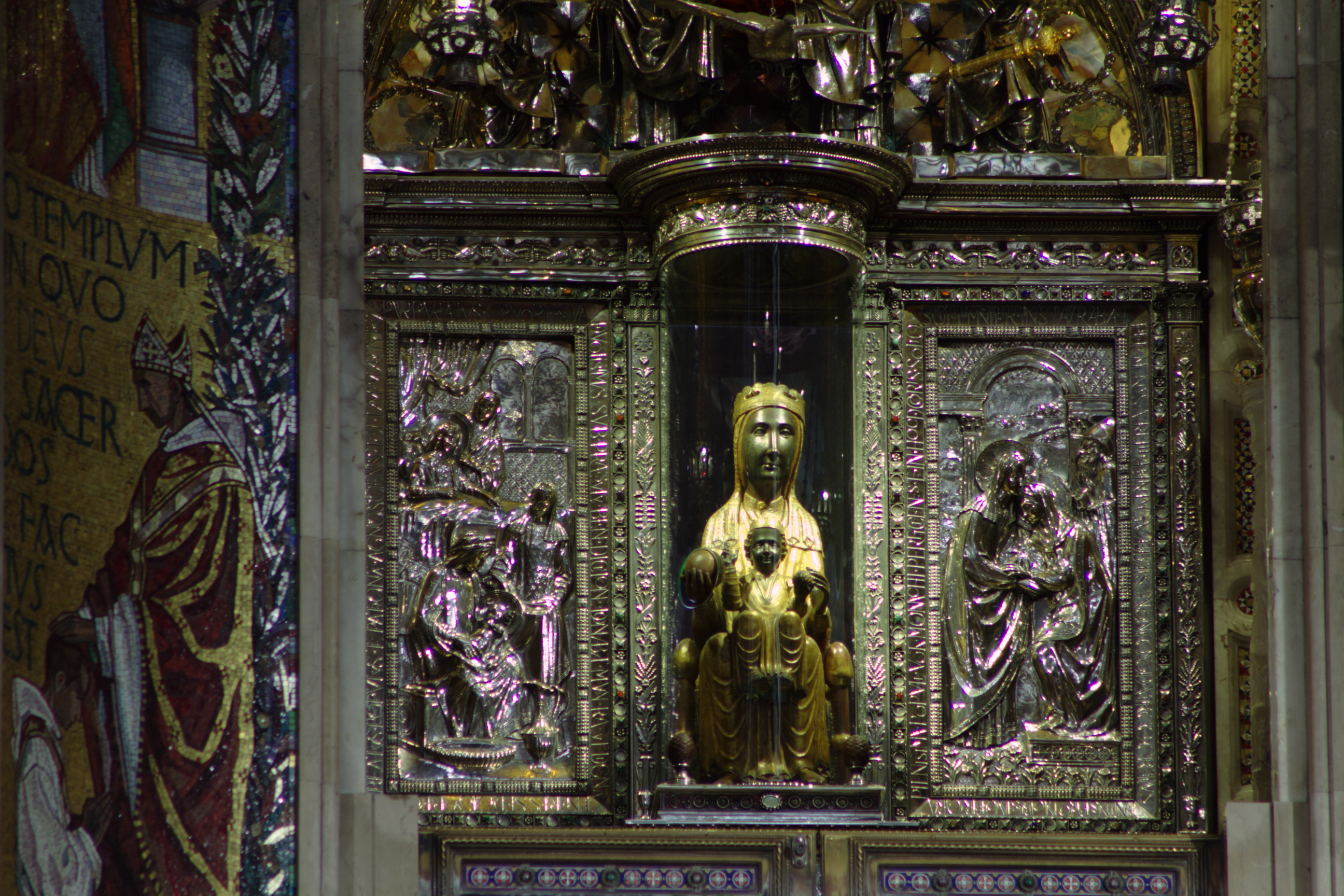 Interior of the Basilica of Montserrat